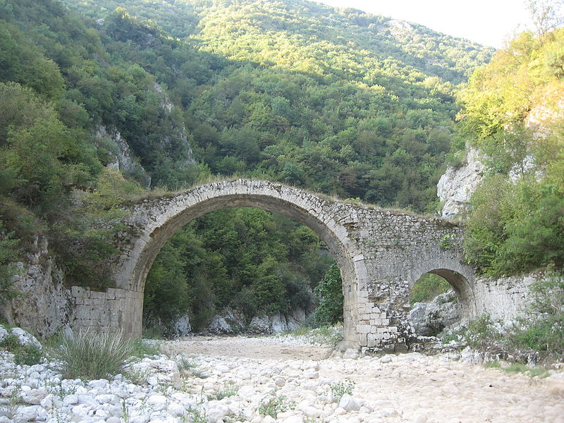 So-called Hannibal's Bridge, on the Melandro river in the municipality of Ricigliano, Province of Salerno